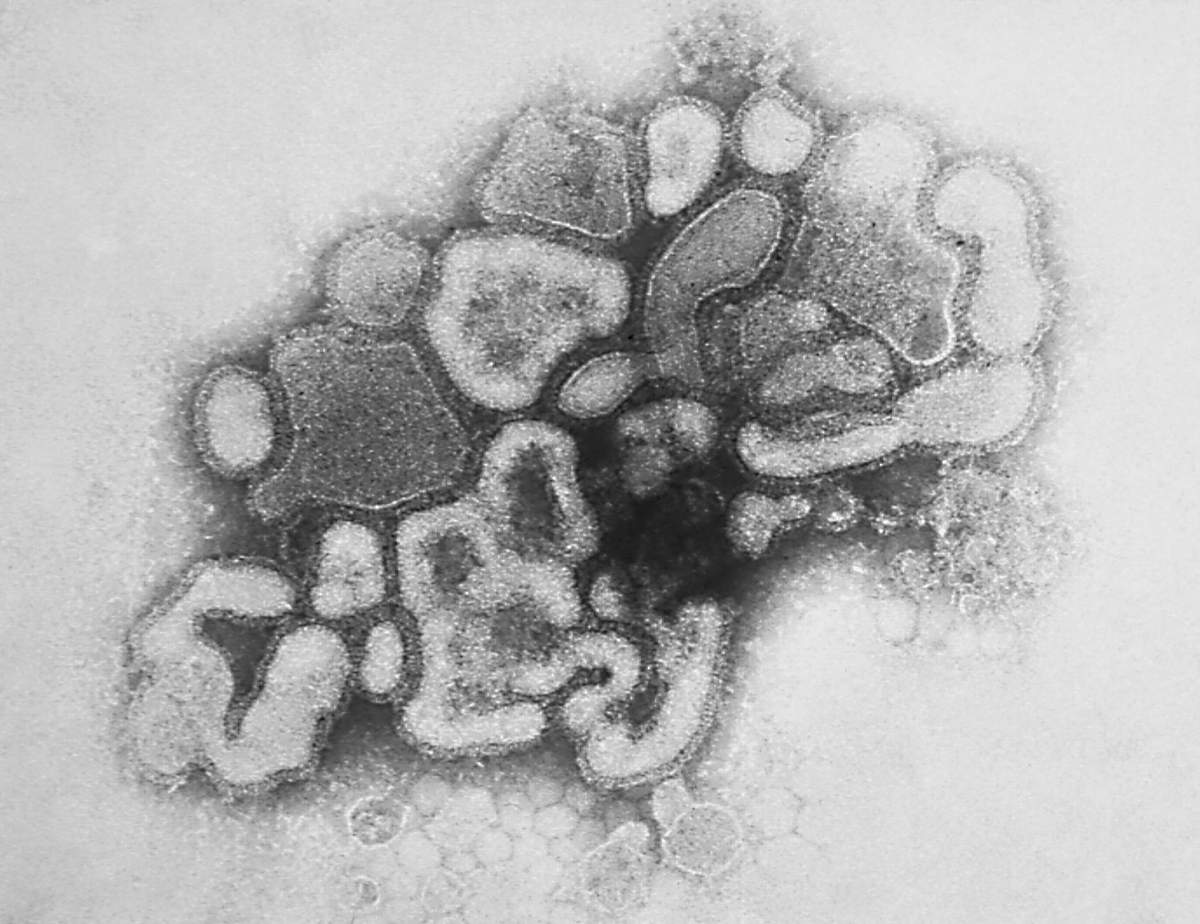 ID#: 1246 Description: Transmission electron micrograph of Spanish flu virus. Content Providers(s): CDC Copyright Restrictions: None - This image is in the public domain and thus free of any copyright restrictions. As a matter of courtesy we request that the content provider be credited and notified in any public or private usage of this image.